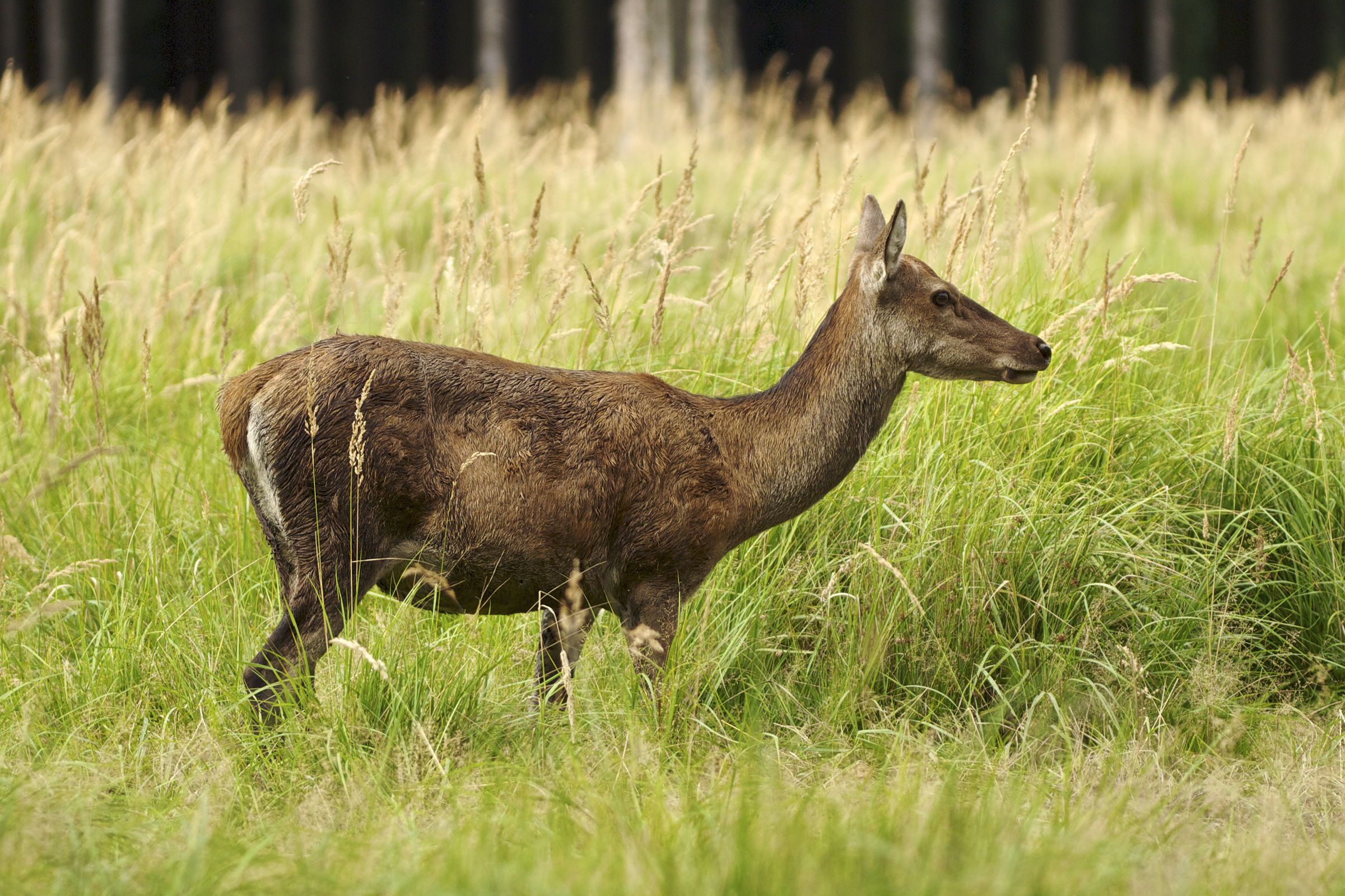 Red deer hind (Cervus elaphus), Chemnitz, Germany